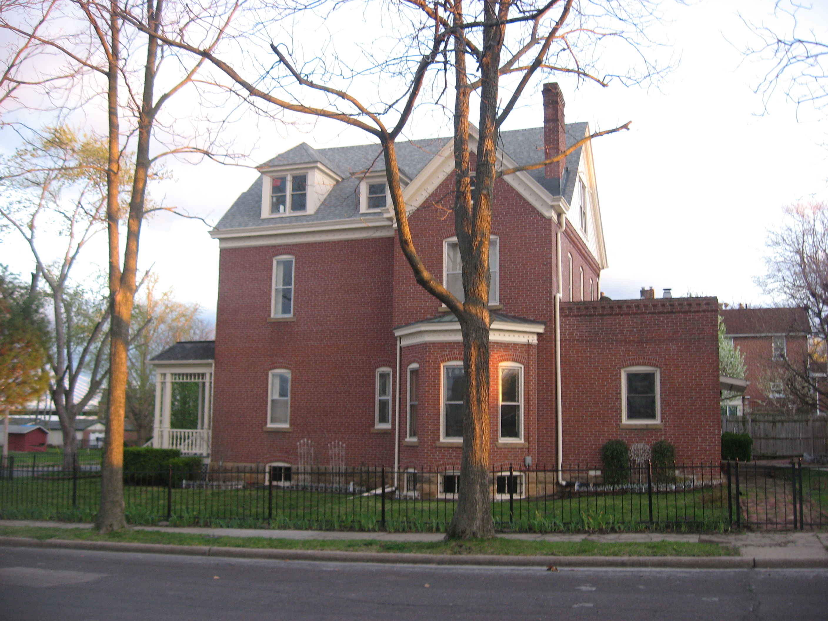 Northern side of the August and Amalia Shivelbine House, located at 303 S. Spanish Street in Cape Girardeau, Missouri, United States. Built in 1890, it is listed on the National Register of Historic Places, and it is part of a Register-listed historic district, the Courthouse-Seminary Neighborhood Historic District.